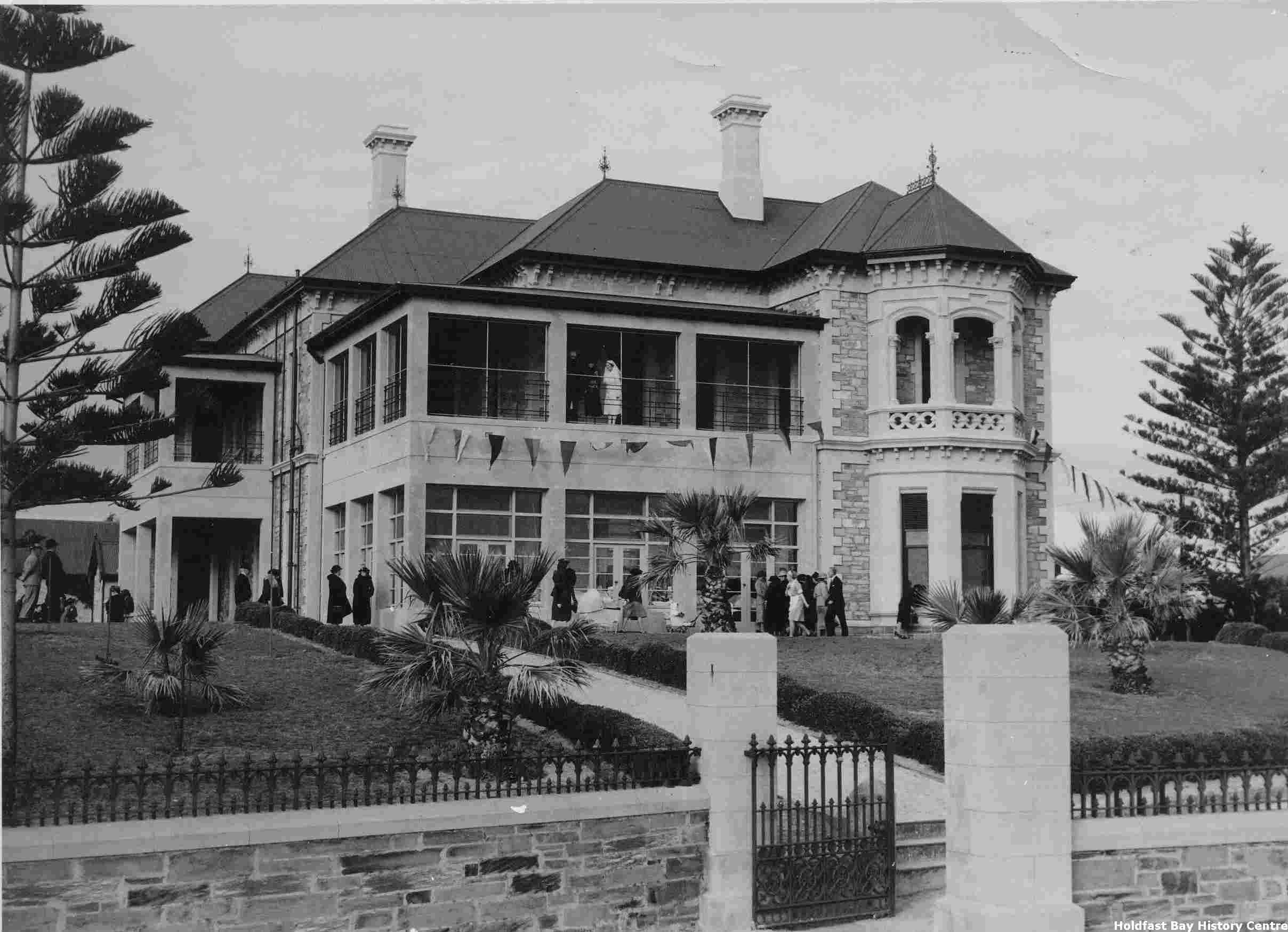 Somerton Crippled Children's House operated from 1939 to 1976 providing accommodation and respite to children with disability.